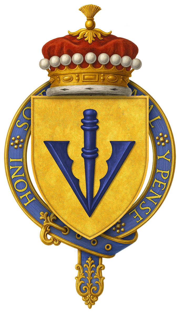 Garter-encircled arms of William Sidney, 1st Viscount De L'Isle, KG - viz. Quarterly, 1st and 4th, or a pheon azure (Sidney); 2nd and 3rd, sable a fess engrailed between three whelk shells or, a mullet for difference (Shelley).